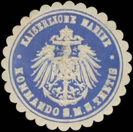 Sealing stamp Title: K. Marine Kommando S.M.S. Thetis Description: Segelschiff Place: size: cm